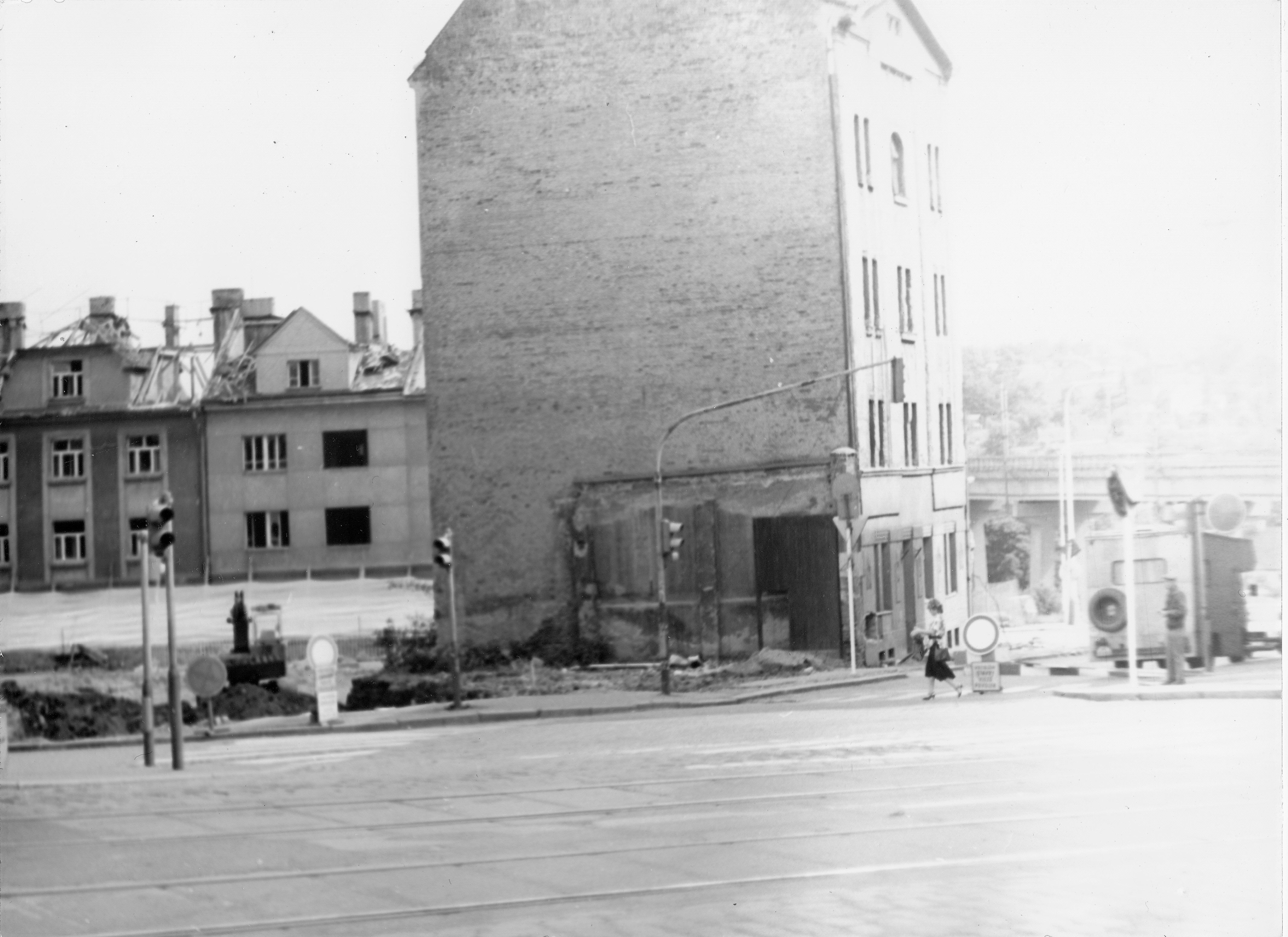 Hejtmánkova (view from Zenklova), Libeň, Praha, Czech republic